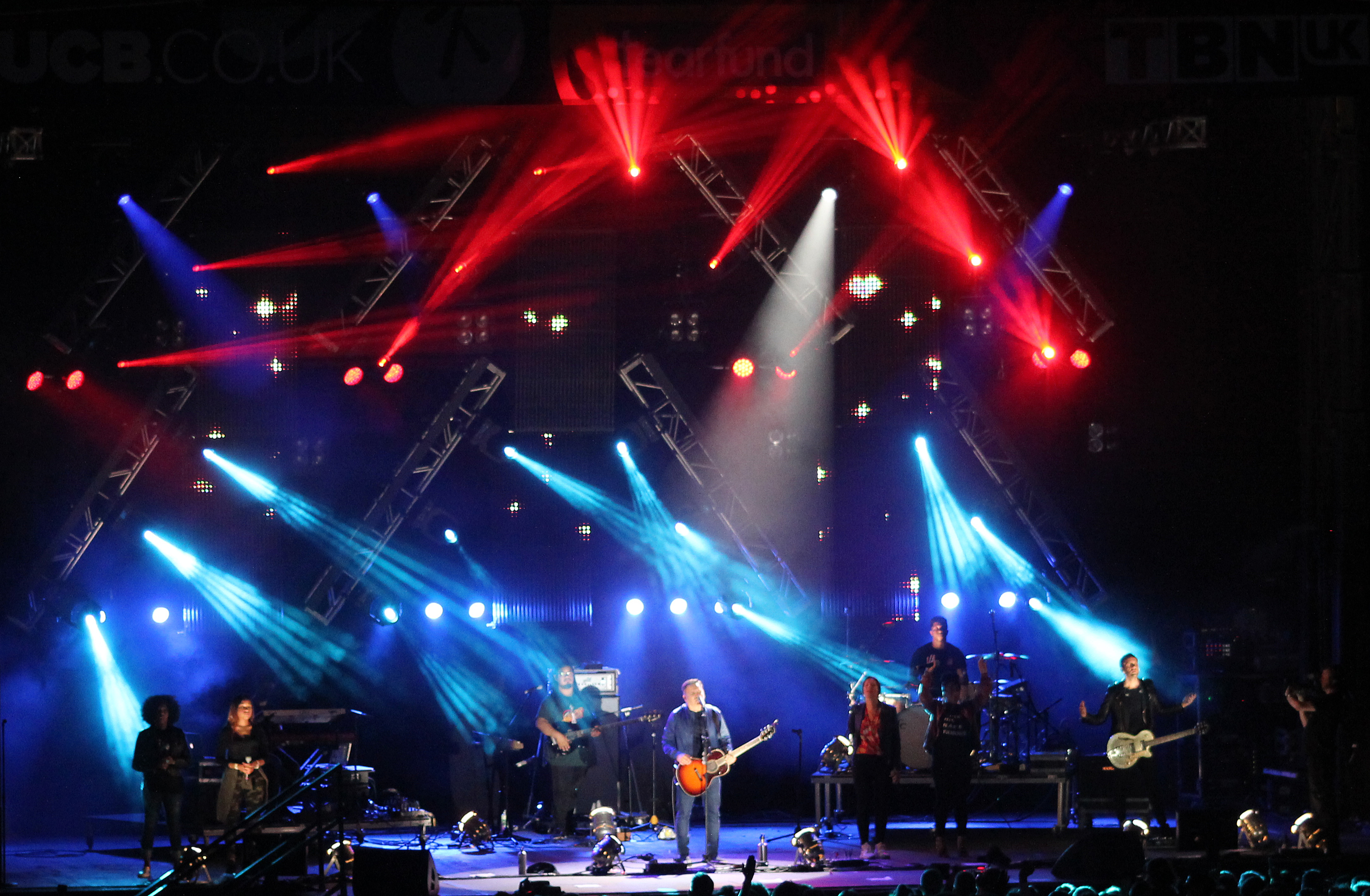 Matt Redman performing at Big Church Day Out (South) at Wiston, West Sussex, UK in 2018